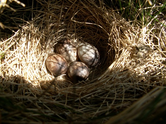 Almost Scrambled Walking across Tooleyshaw Moor I almost stood on this Meadow Pipits nest.